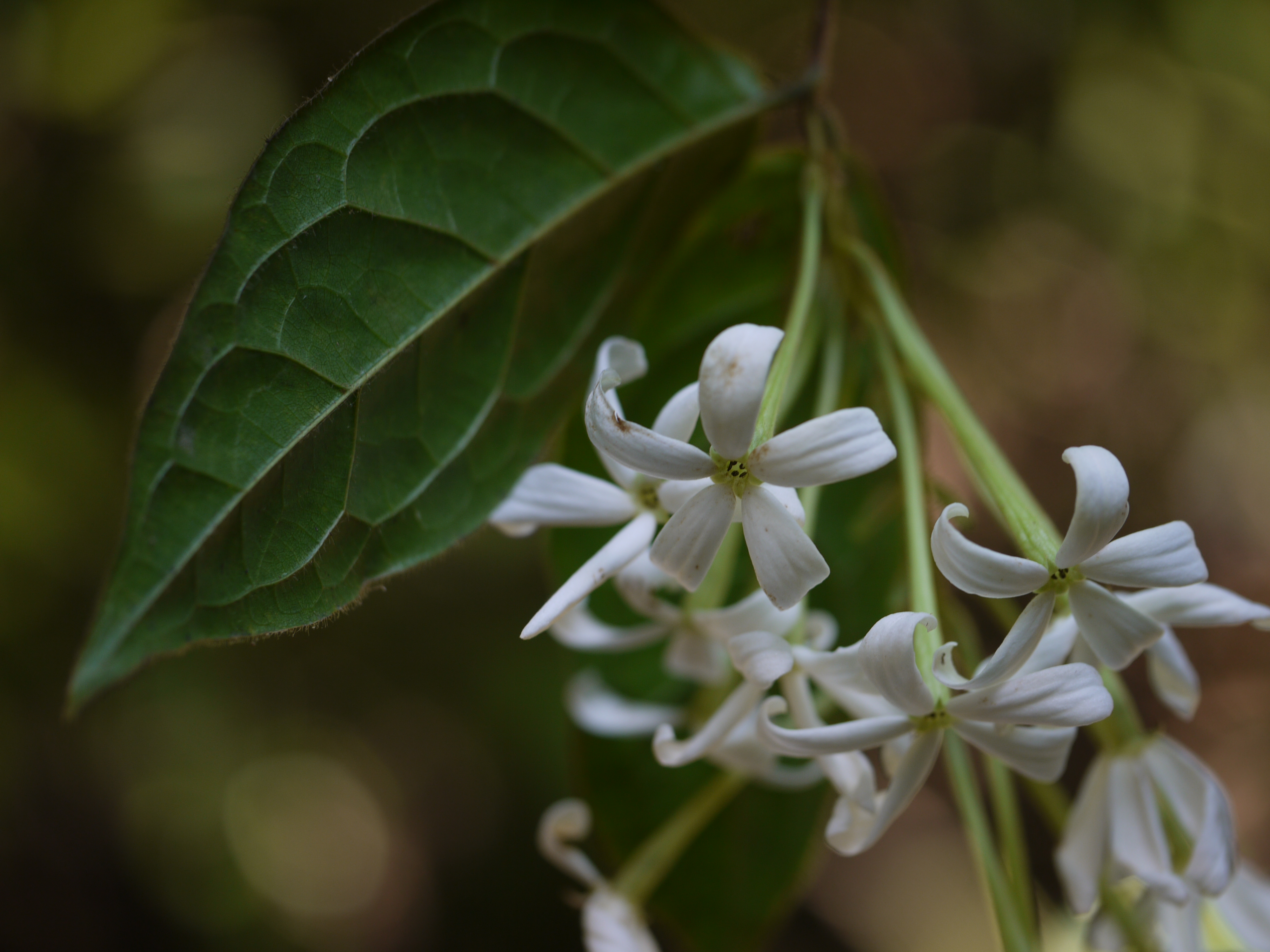 Combretaceae (rangoon creeper family) » Quisqualis malabarica Bedd. kwis-KWAL-iss -- Latin: quis (who) and qualis (what kind), referring to the uncertainty of its family when first discovered ... Dave's Botanary mal-uh-BAR-ih-kuh -- of or from the Malabar Coast, southern India ... Dave's Botanary commonly known as: Malabar madhumalati • Kannada: ಸಂಧ್ಯಾರಾಣಿ sandhyarani • Malayalam: സന്ധ്യാറാണി sandhyarani Endemic to: southern Western Ghats (of India) References: Flowers of India • Kerala Plants